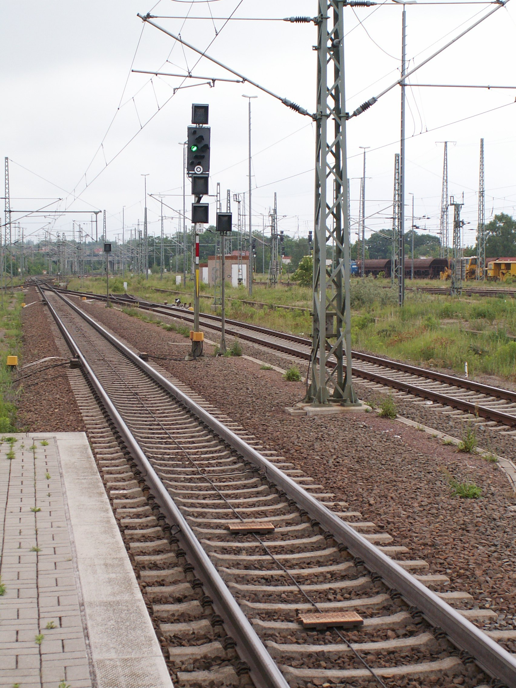 A Eurobalise radio beacon for the ETCS railway signalling system at the northern head of the main station of Lutherstadt Wittenberg, Germany.